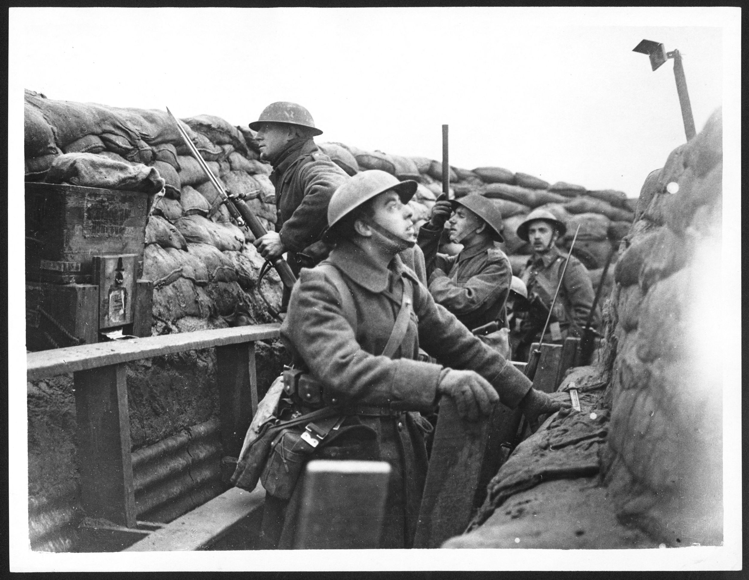 Posed photograph in a trench showing British troops using trench periscope and trench mirror to view nomansland.